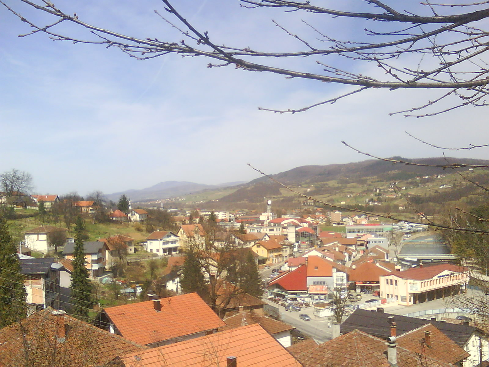 Panorama photo of Kiseljak